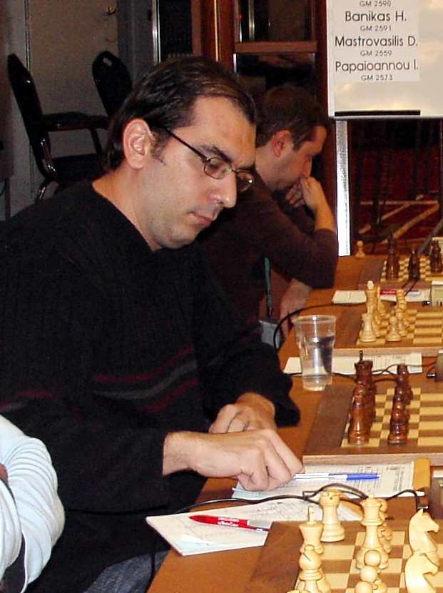 GM Hristos Banikas Greece, EuroChess Iraklion 2007